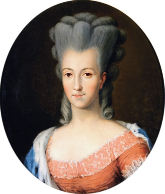 Countess Amalie Ludowika Finck von Finckenstein (1740-1771) oil on canvas 65 x 54.5 cm 19th century